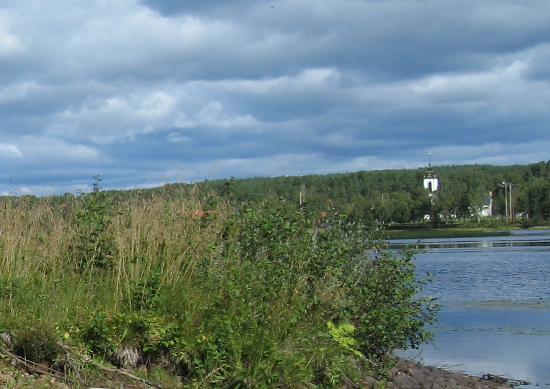 Idre